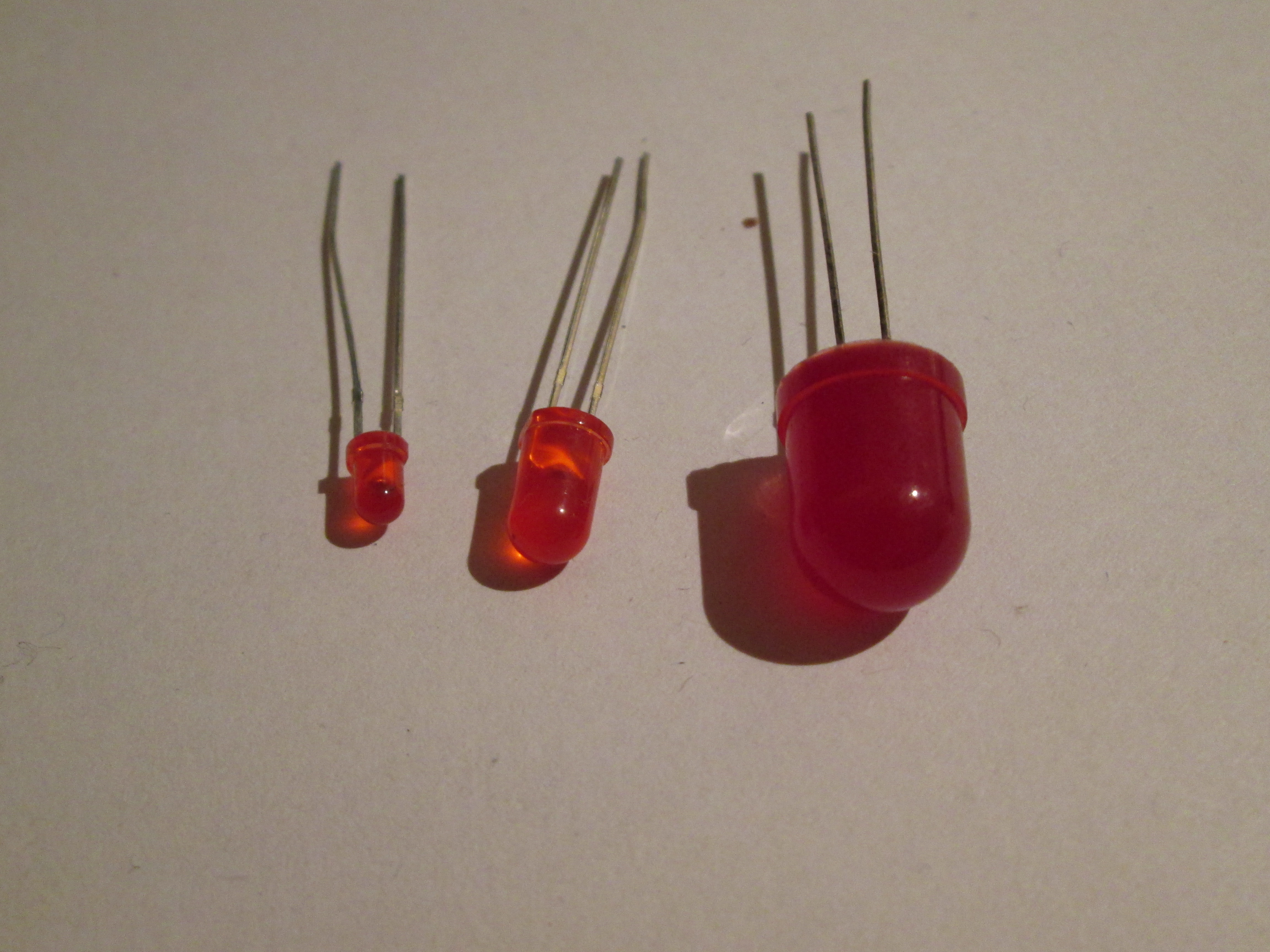 Differences between 3, 5 and 10 mm LEDs.